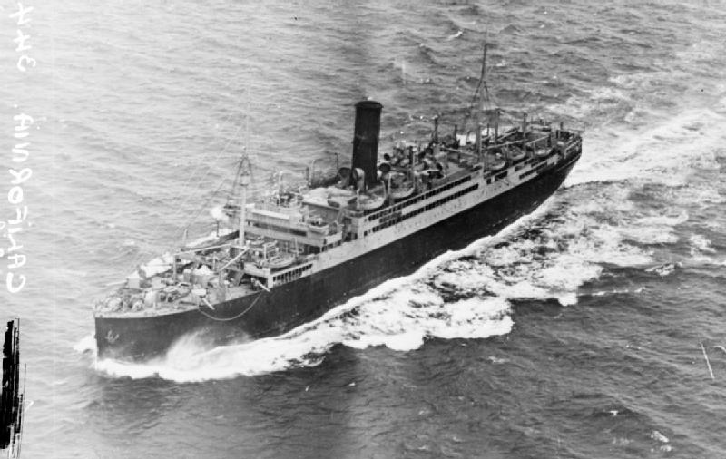 Photograph of British armed merchant cruiser HMS California.